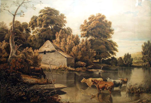 Watercolour of Hedsor Wharf on the River Thames below Cookham. Painted in 1812 by William Havell (1782 - 1857)